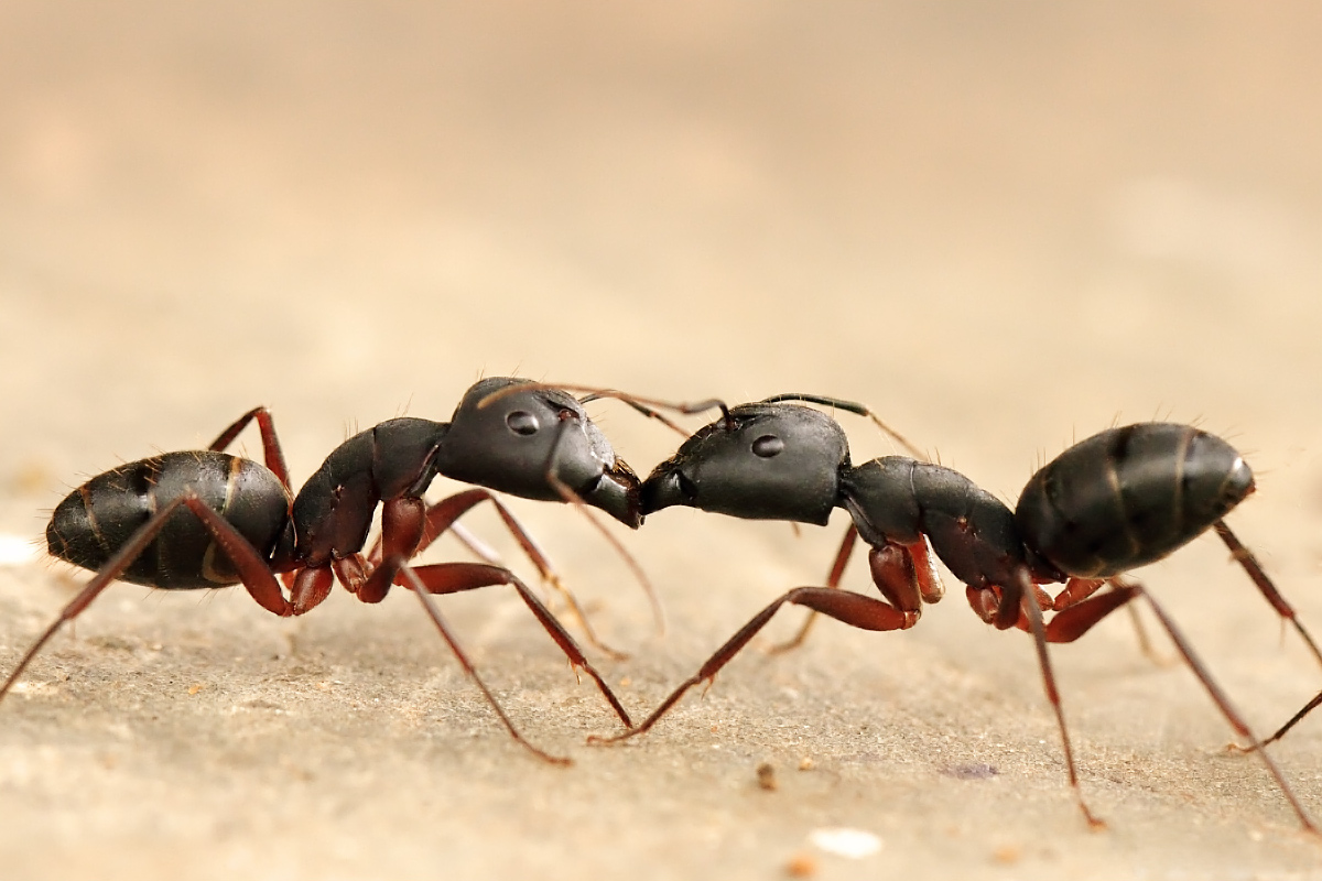 Trophallaxis in black ants Camponotus cf. compressus